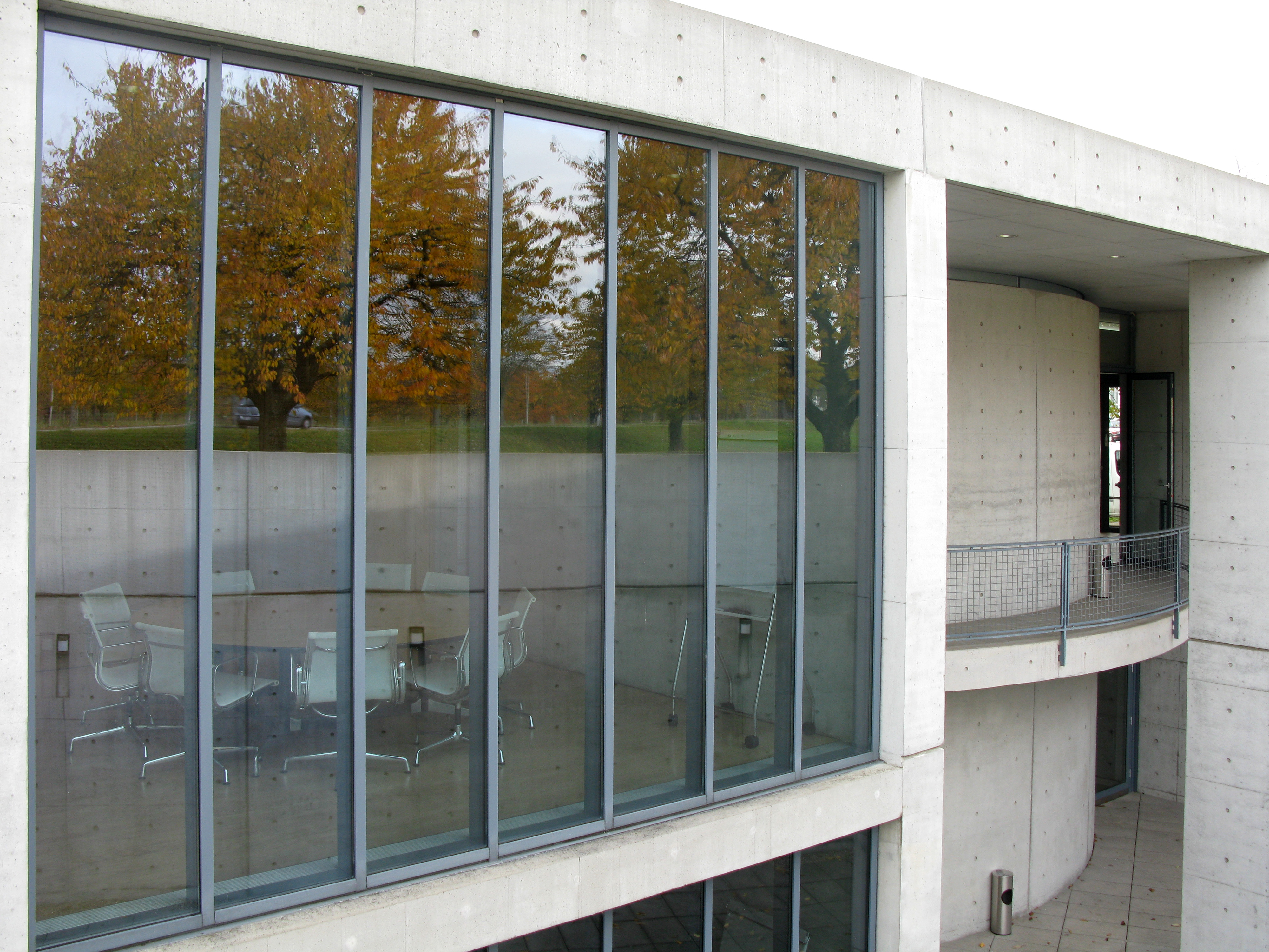 Vitra Conference Pavilion